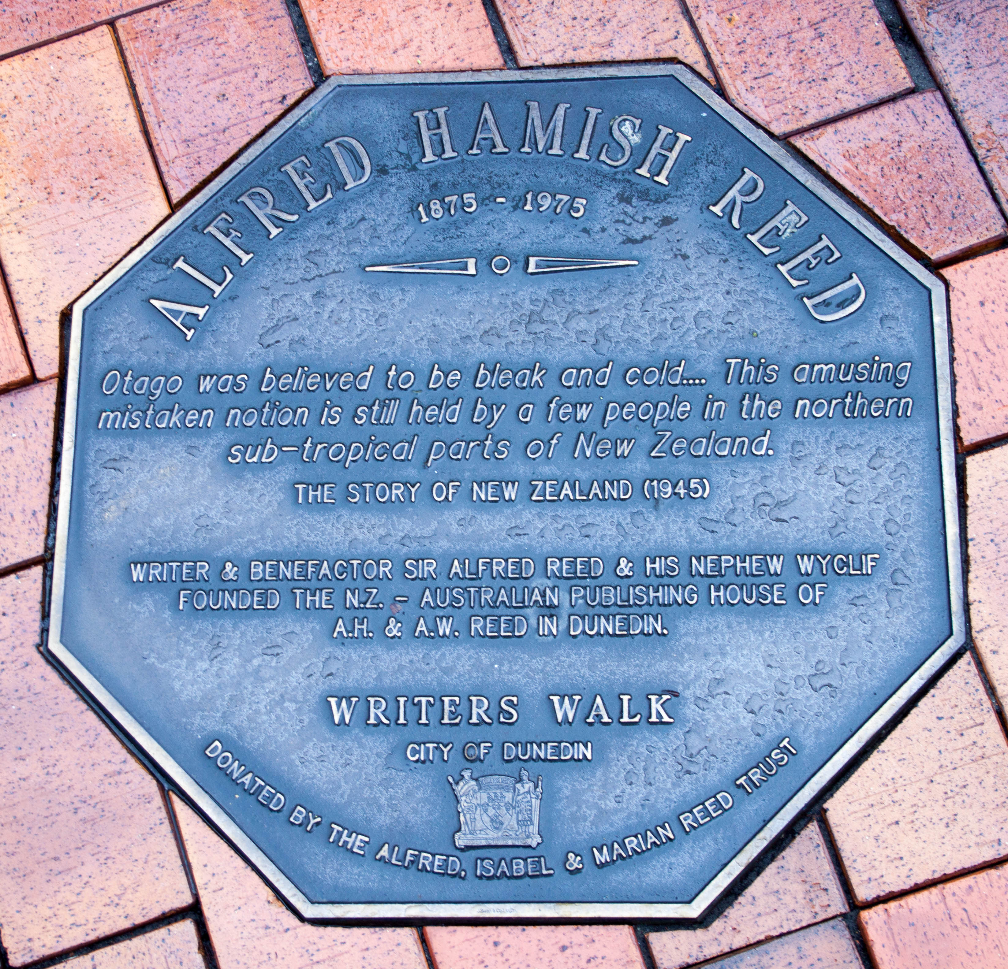 Plaque dedicated to Alfred Hamish Reed in Dunedin, on the Writers' Walk on the Octagonlabel QS:Len,"Plaque dedicated to Alfred Hamish Reed in Dunedin, on the Writers' Walk on the Octagon" label QS:Lhu,"Emléktábla Alfred Hamish Reed tiszteletére Dunedin Octagon terén, az Írók sétányán"